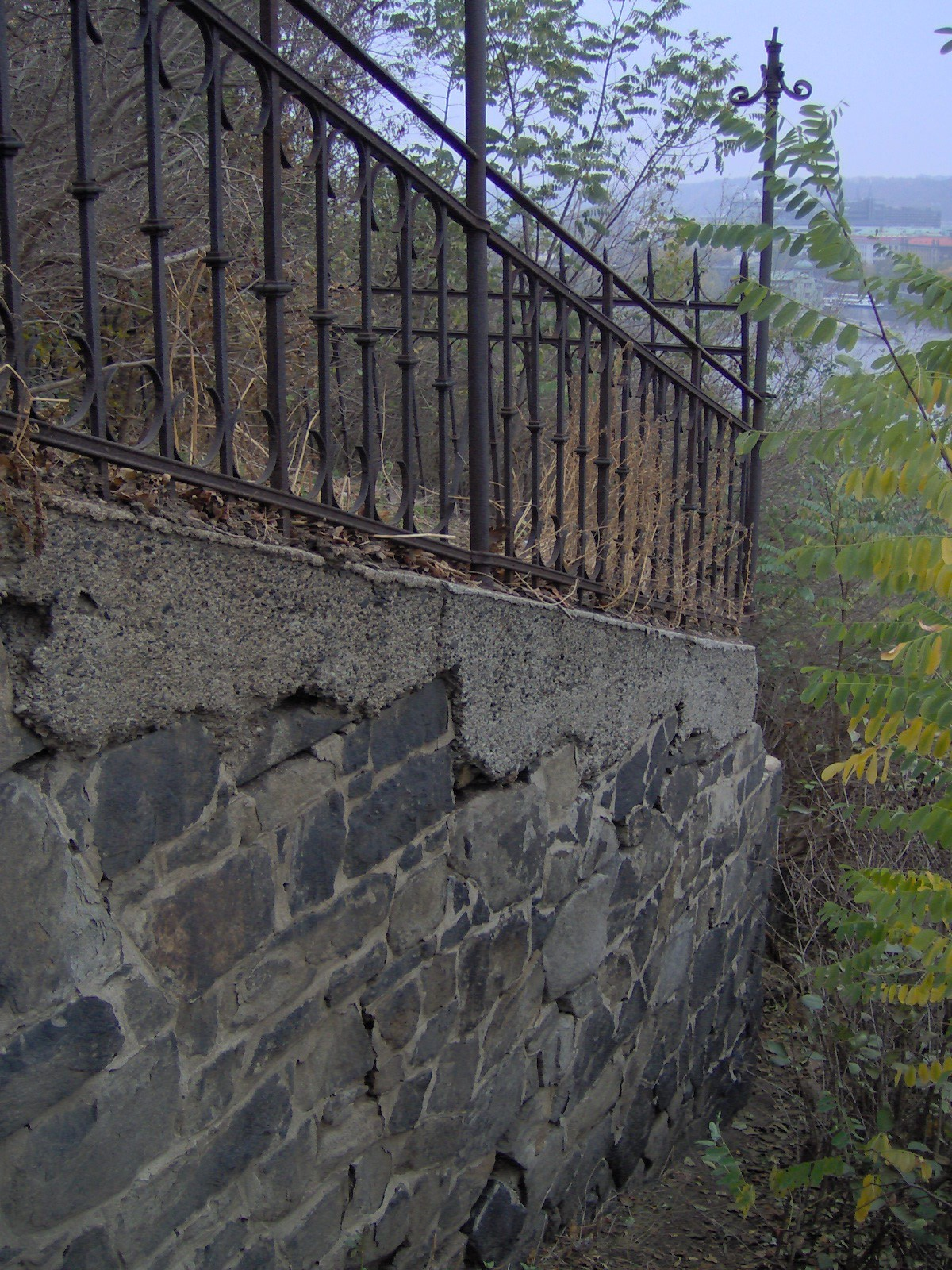 Fragments of Letná funicular, Prague, Czech Republic